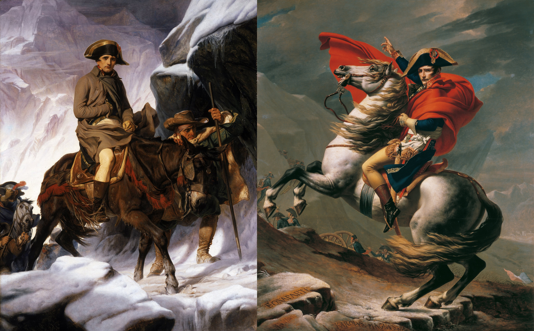 Napoleon Crossing the Alps. Left painted by Paul Delaroche and Right made by Jacques Louis David